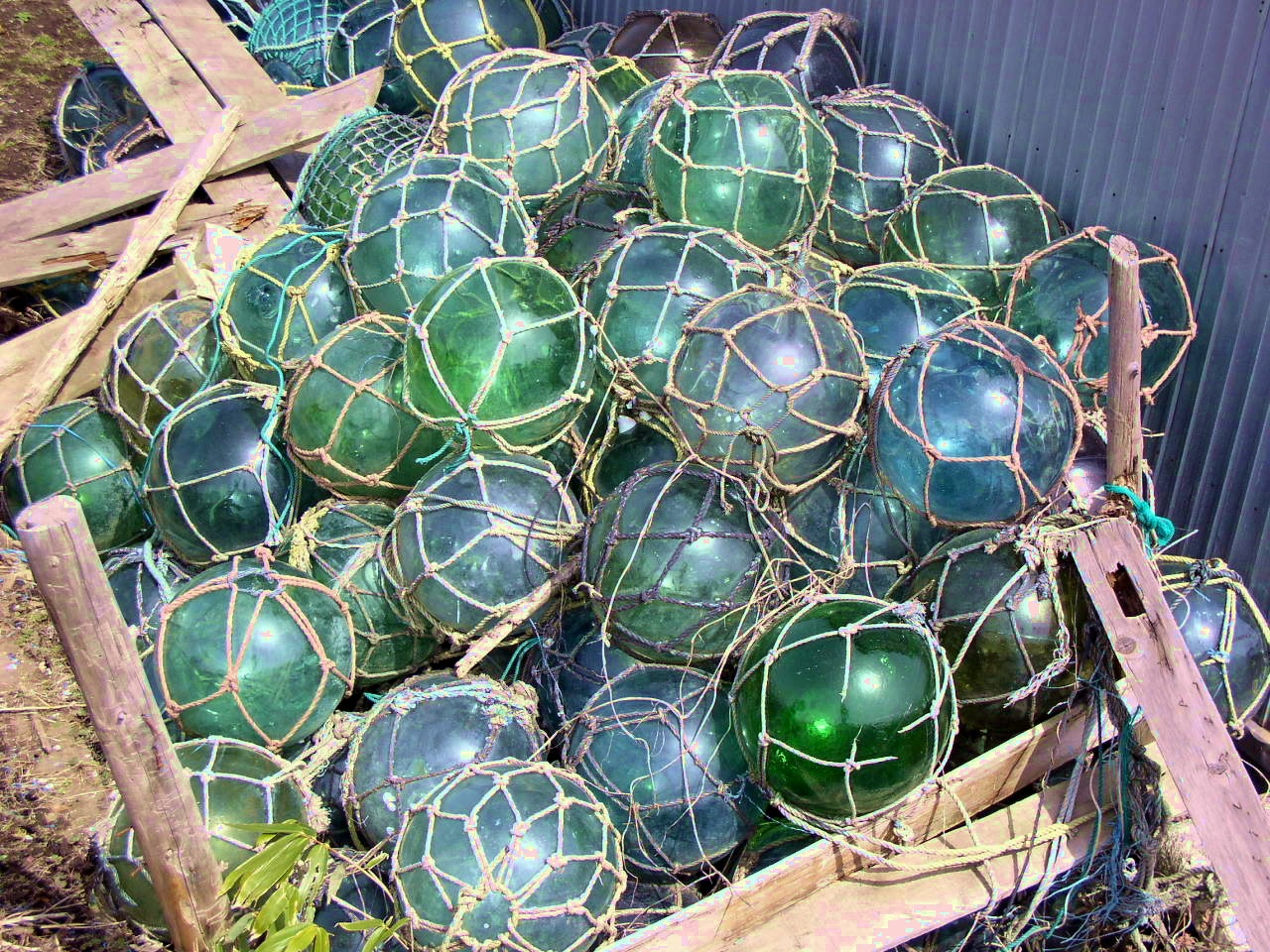 Pile of unused large glass floats in Northern Japan